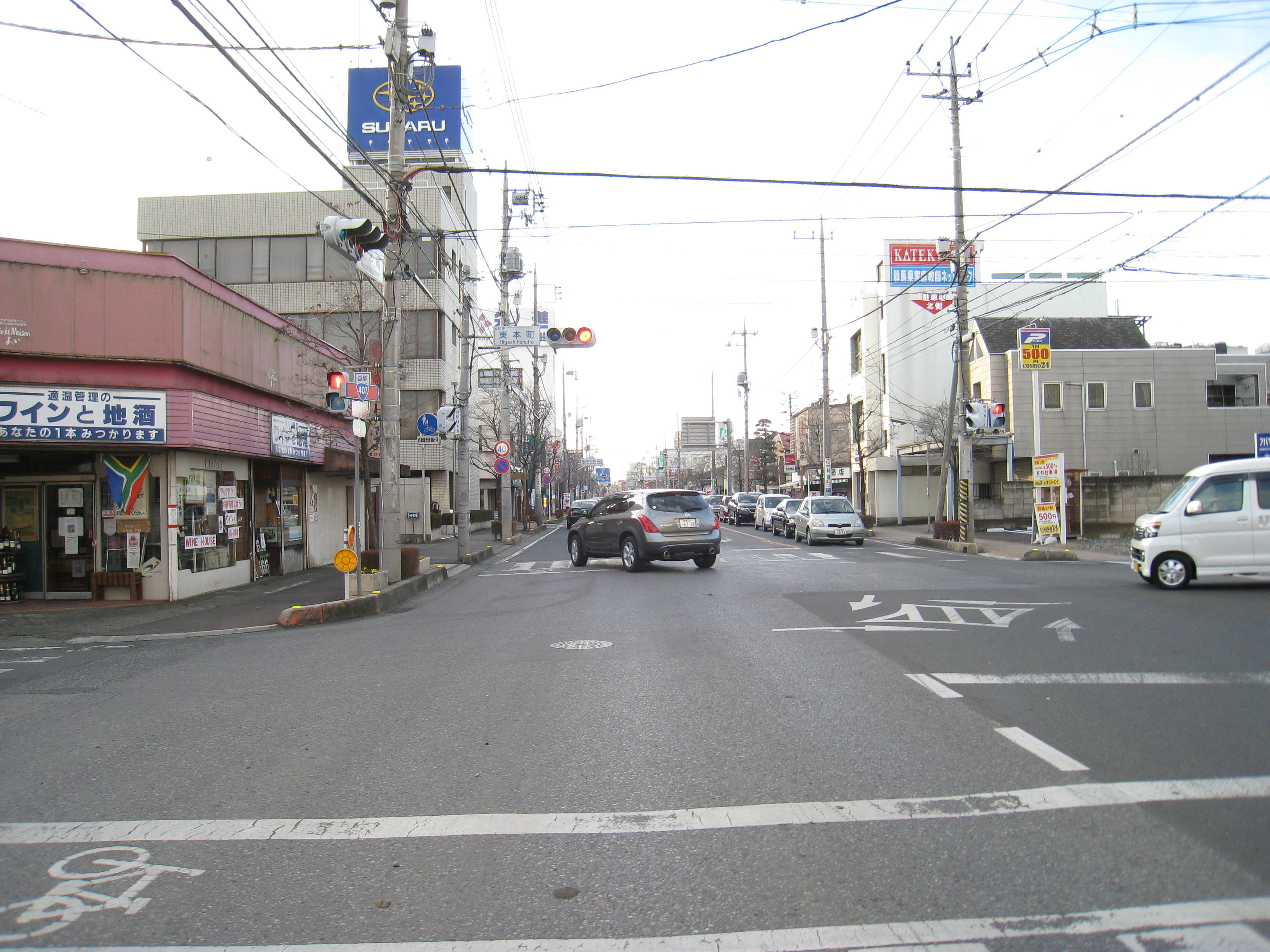 Gunma prefectural road No.2